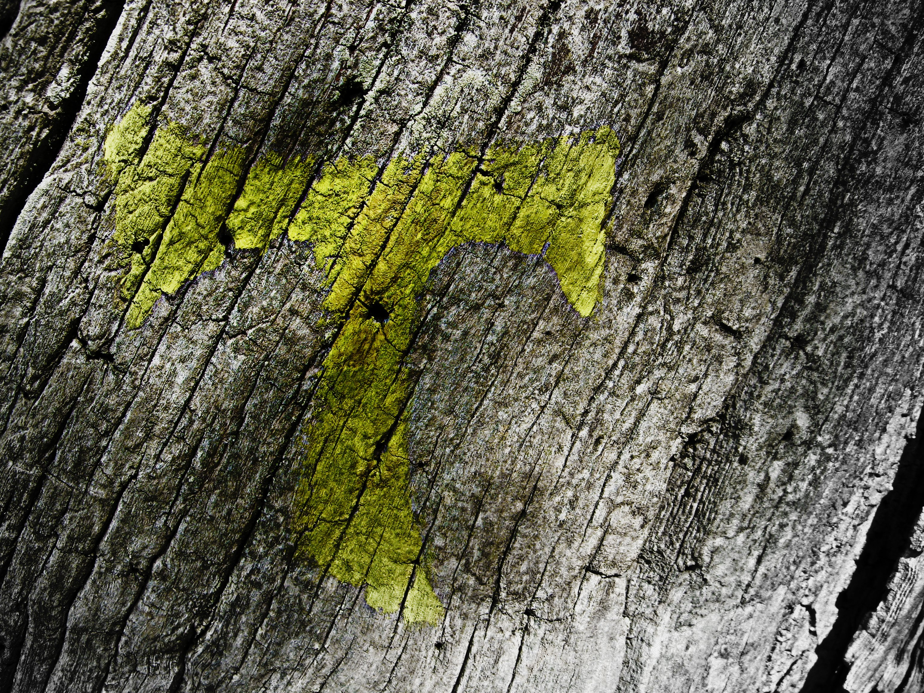 Path of Cammino di Francesco from Greccio to Terni (Province of Rieti, Lazio, Italy)